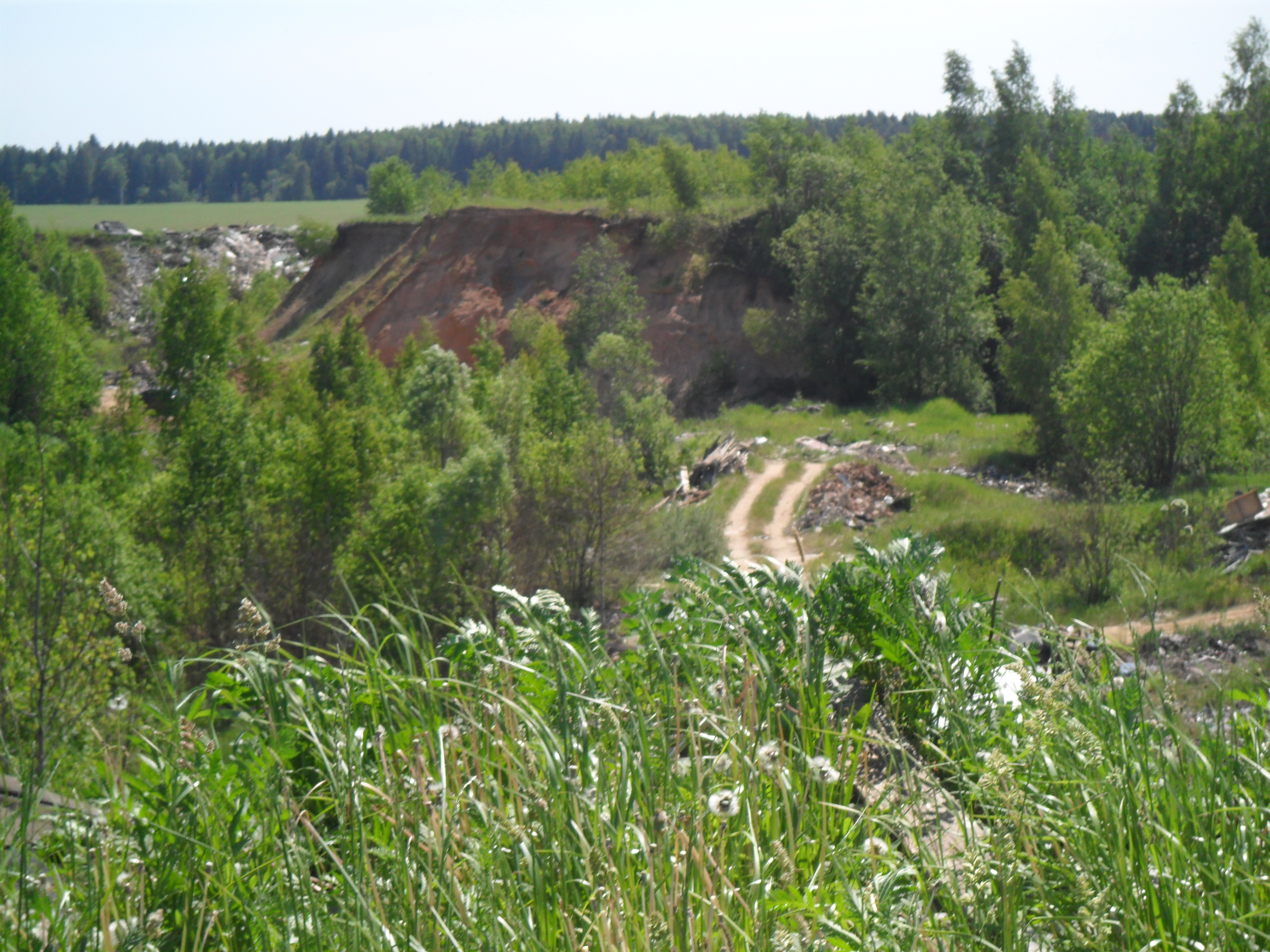 Accumulation of the ravines in the village Gribtsovo (Ruzskiy district of Moscow region).